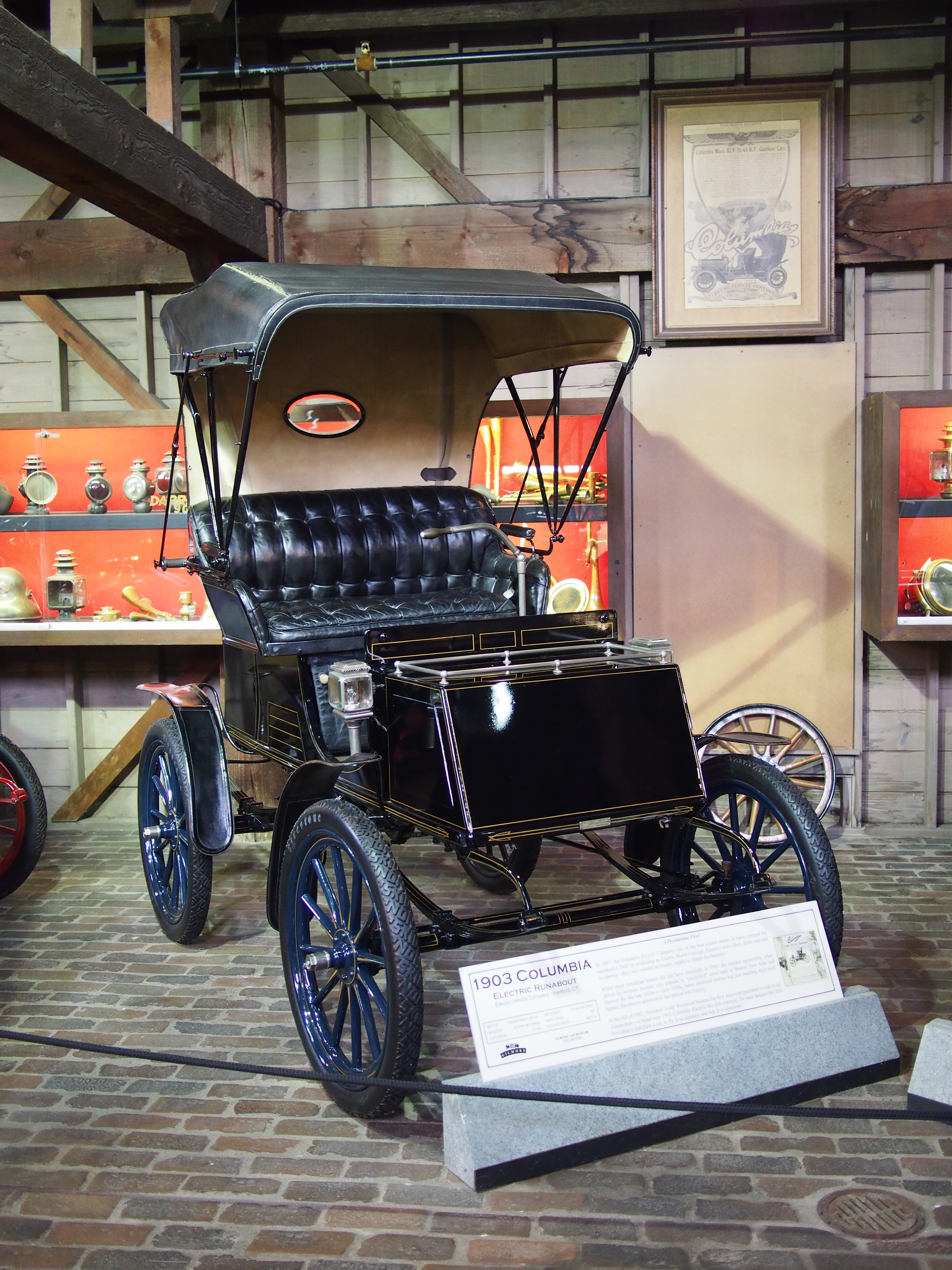 1903 Columbia Electric Runabout Gilmore Car Museum Hickory Corners, Michigan, United States MOTOR General Electric 40 volt MILEAGE 40 miles per charge TOP SPEED 15 mph BATTERIES 20 two-cell Edison WHEELBASE 64 inches FACTORY PRICE $850.00 (from sign at the front of the exhibit)